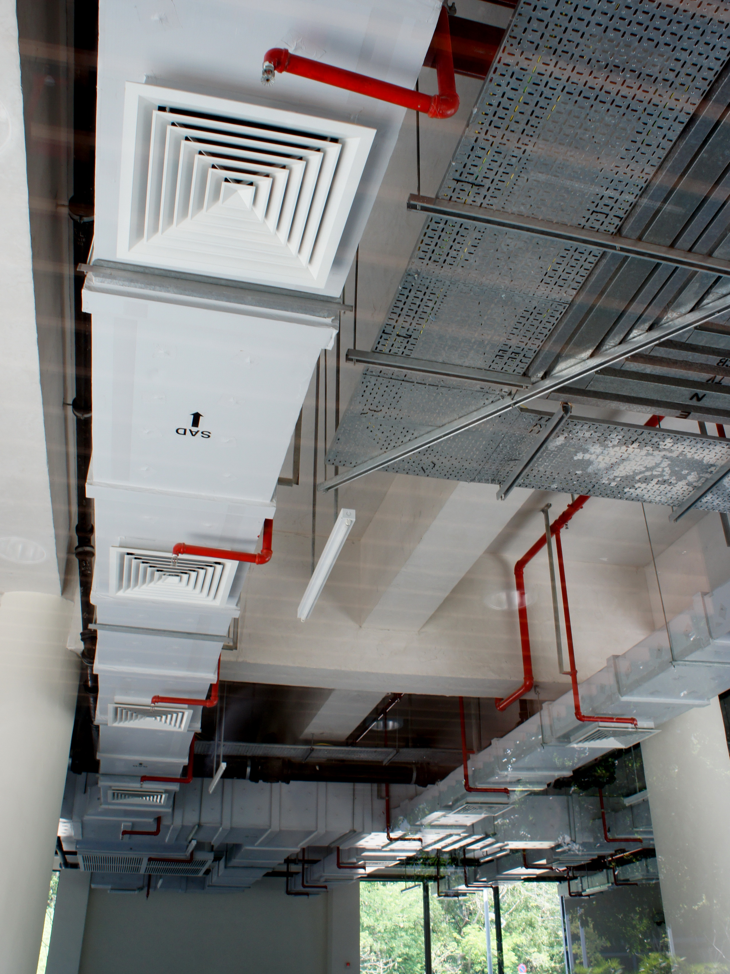 Ducts (HVAC) in ceiling.